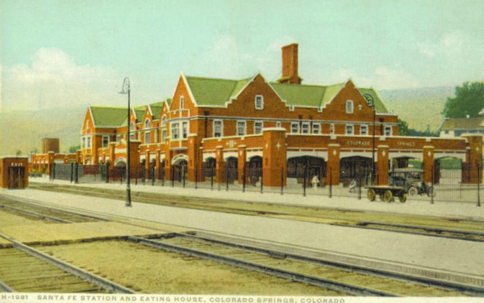 Postcard photo of the Sante Fe railroad depot in Colorado Springs, Colorado.